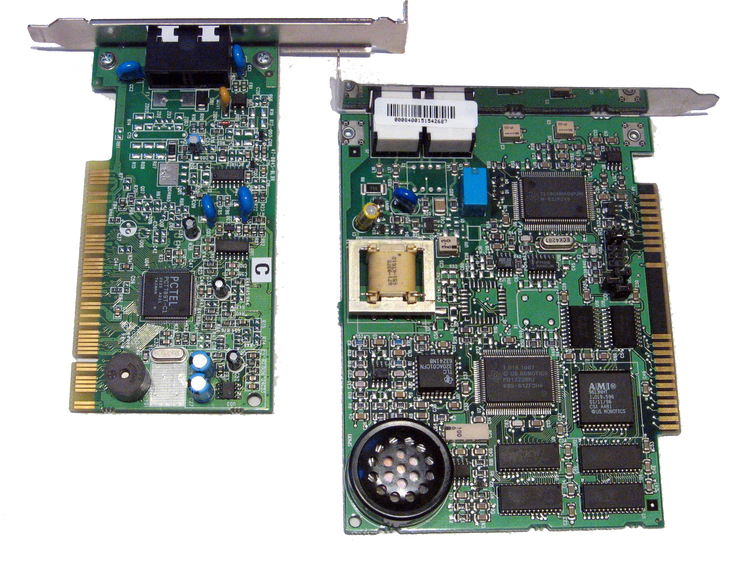 An image I took of a 56k (v.90) Winmodem taken out of a Compaq on the left and a 33.6k non-winmodem (unknown protocol). The winmodem seems pretty generic, while the other is a US Robotics. I don't know the model number, but the revision number is 1.012.0335-C.